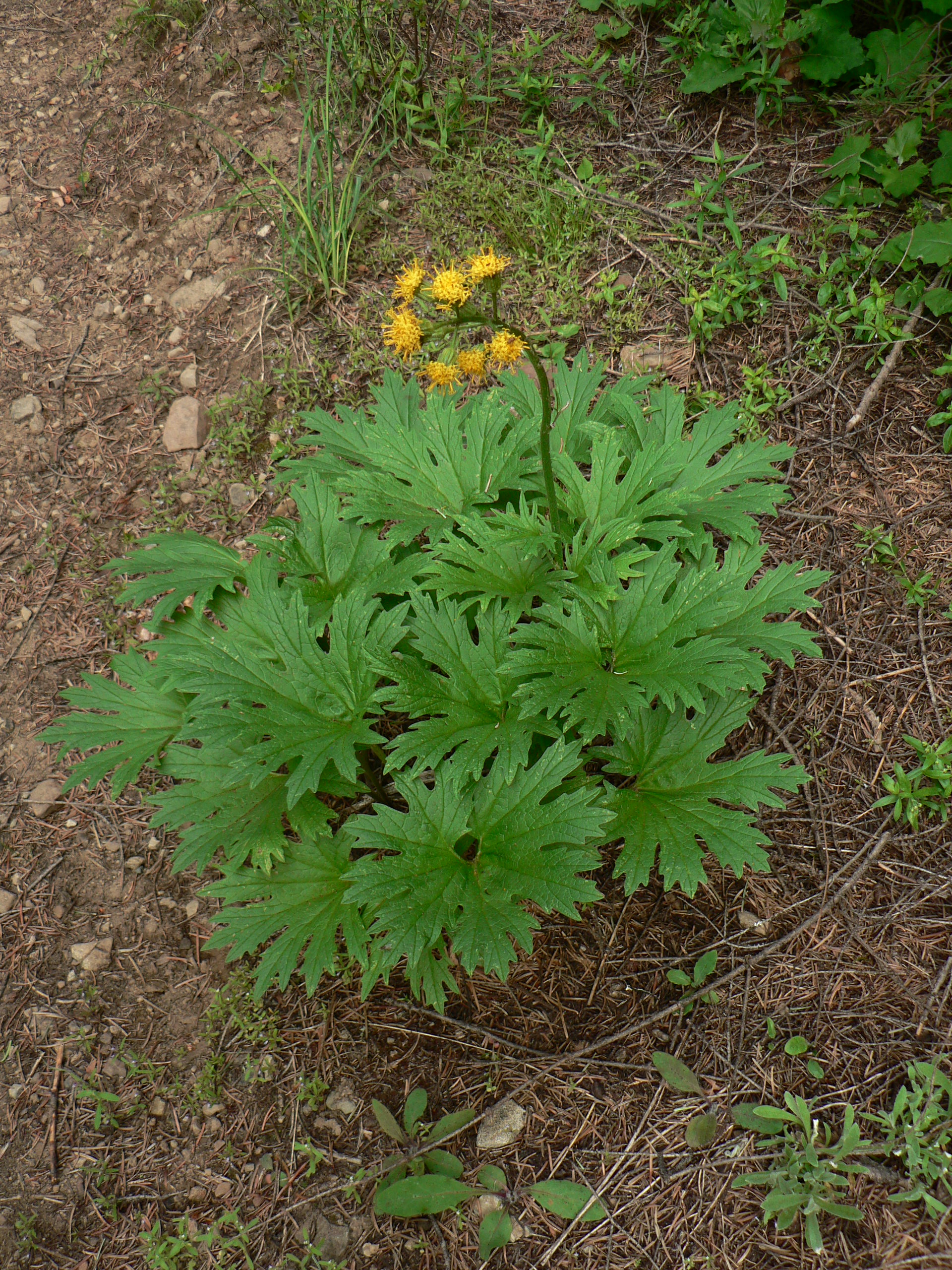 Silvercrown